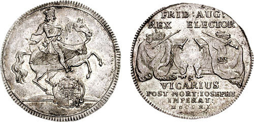 GERMANY, Saxony. Friedrich August I. 1694-1733. AR Vicariat Half Taler (14.57 gm). On the death of Joseph I and election of Charles VI as Holy Roman Emperor. Dresden mint; Johann Lorenz Holland, mint master. Dated 1711. Armored figure of prince on horseback; coat-of-arms below / Two tables with coronation regalia-cloaks, crowns, sceptre, orb and sword. KM 802. Superb EF, choice toning.